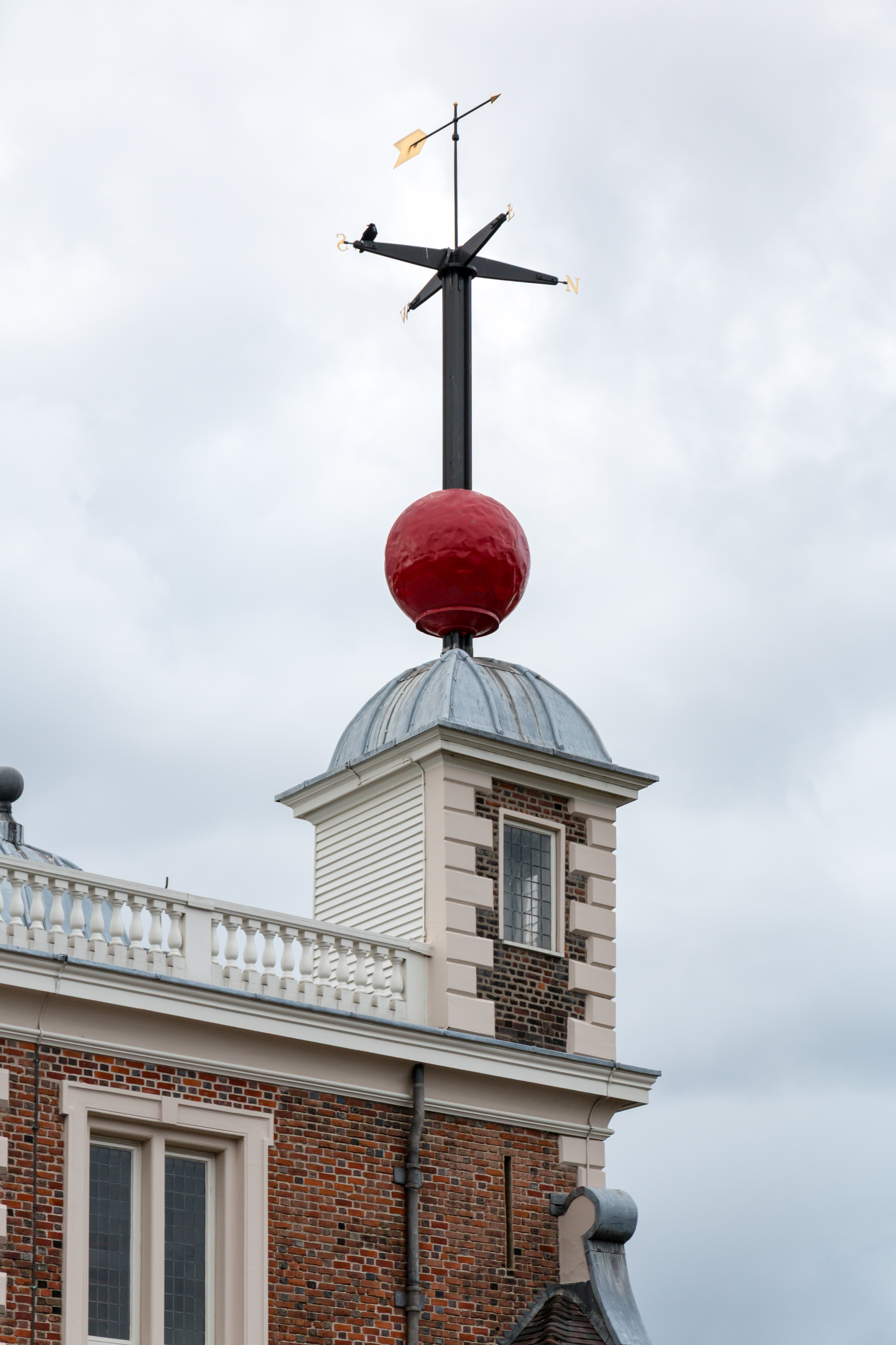 Time ball at Flamsteed House at Royal Observatory, Greenwich, London, England, United Kingdom